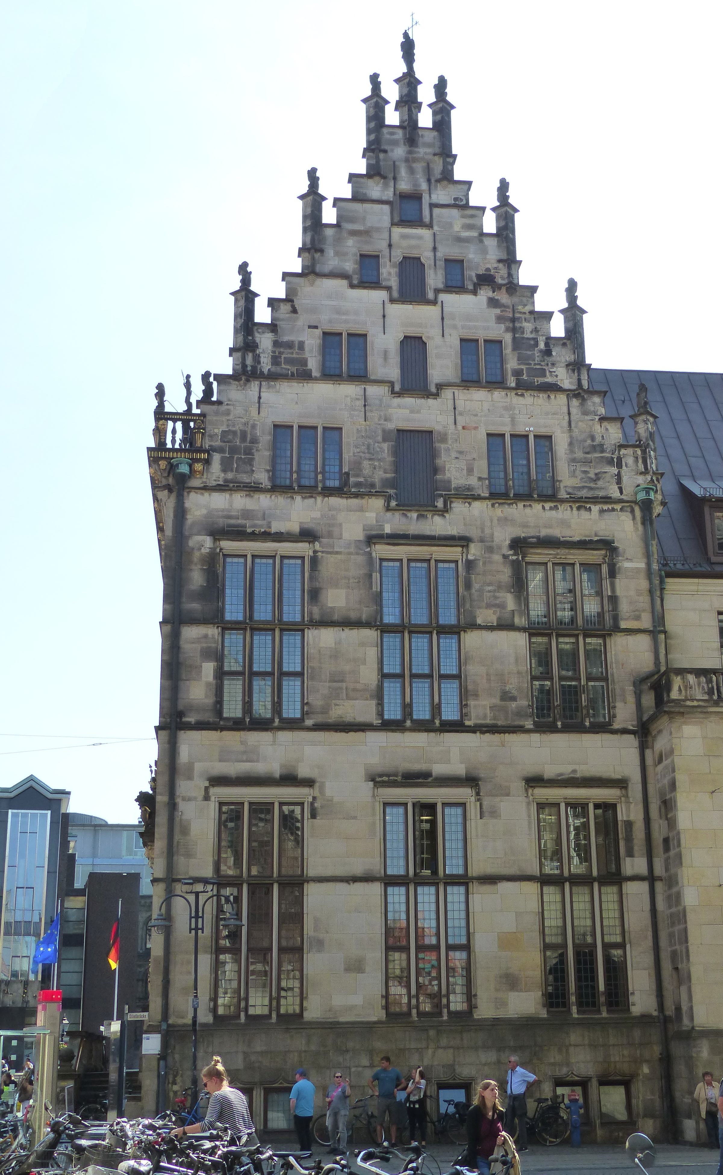 Northwestern gable of Schütting guildhouse in Bremen